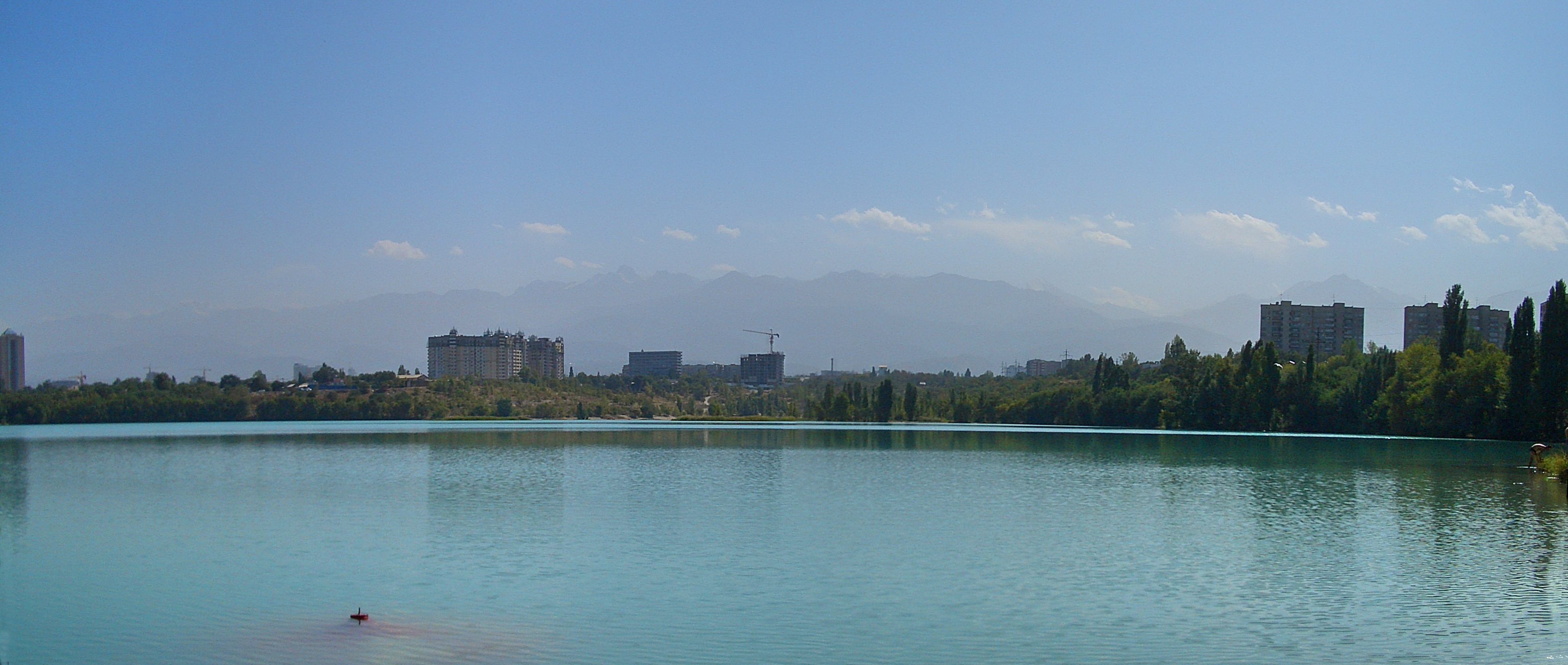 Sayran (Sairan) Lake in Almaty